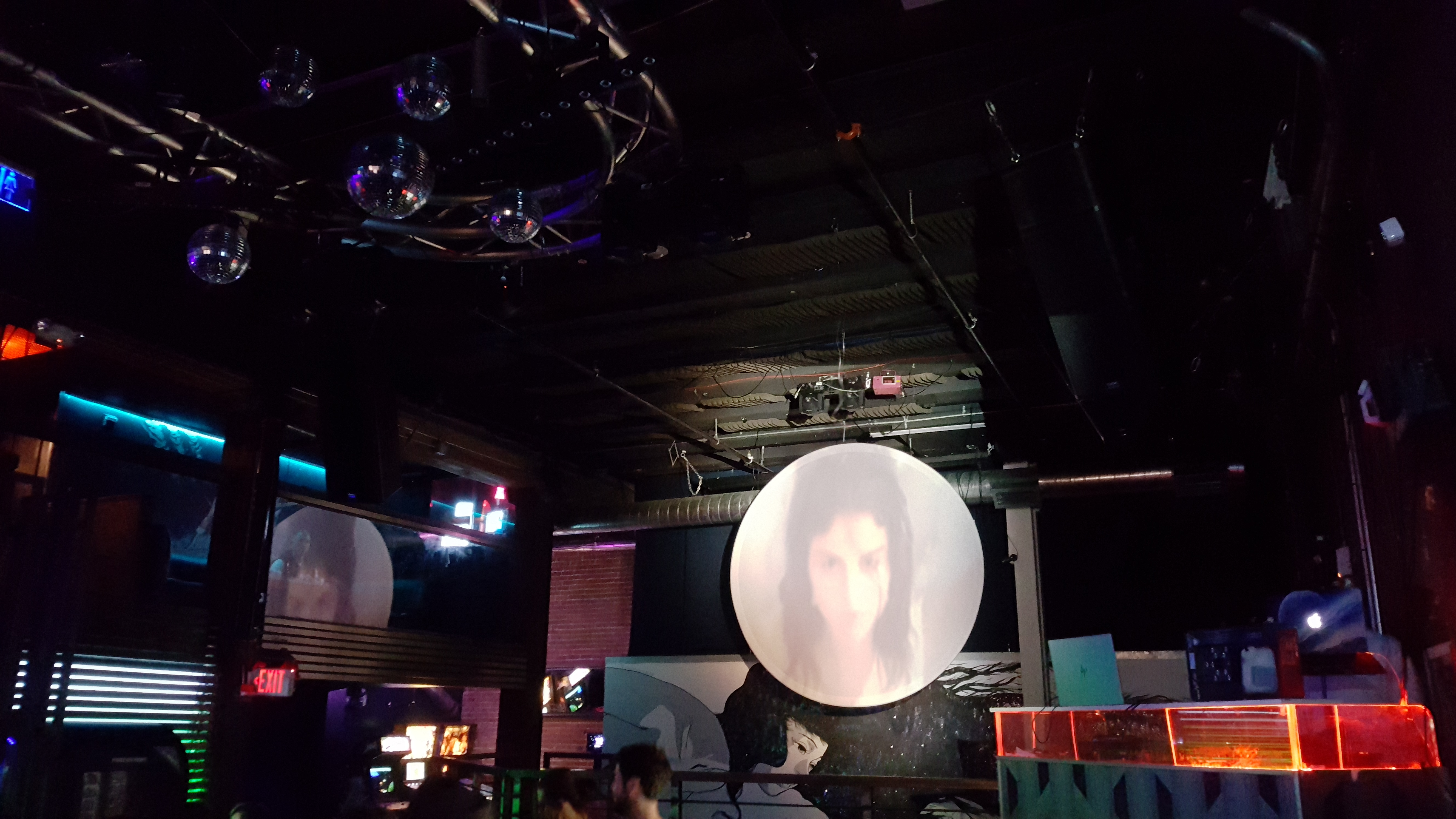 Barbarella, Portland, Oregon